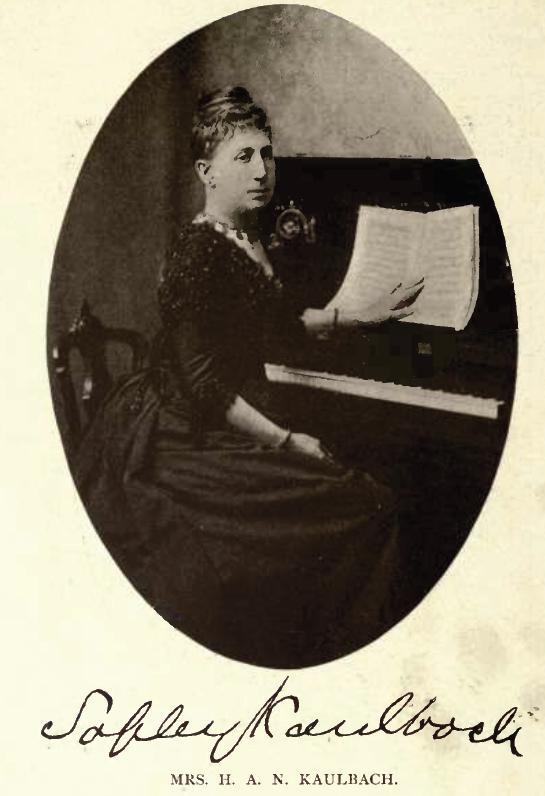 Mrs Kaulbach by William James Topley